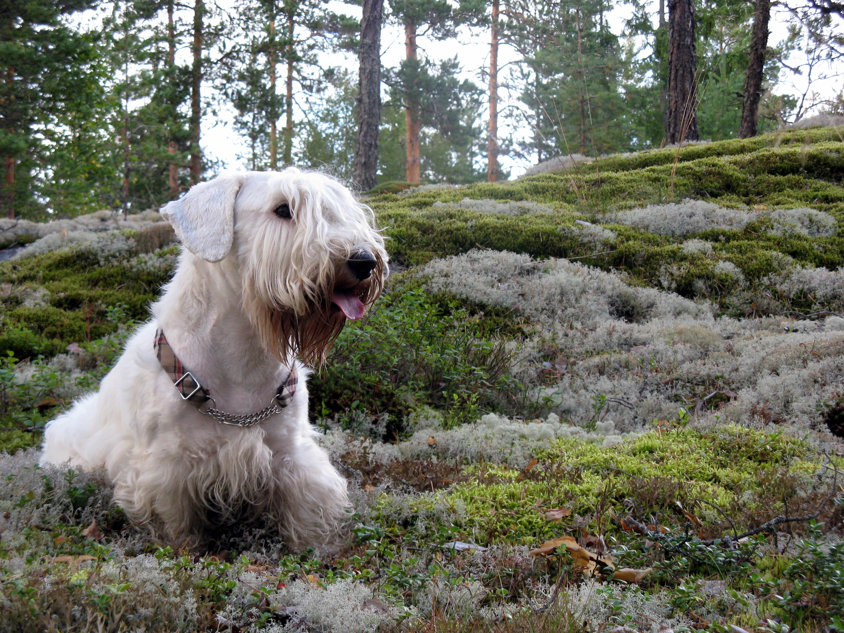 A Sealyham Terrier (Six-Pack Snuffy Smith) in forest